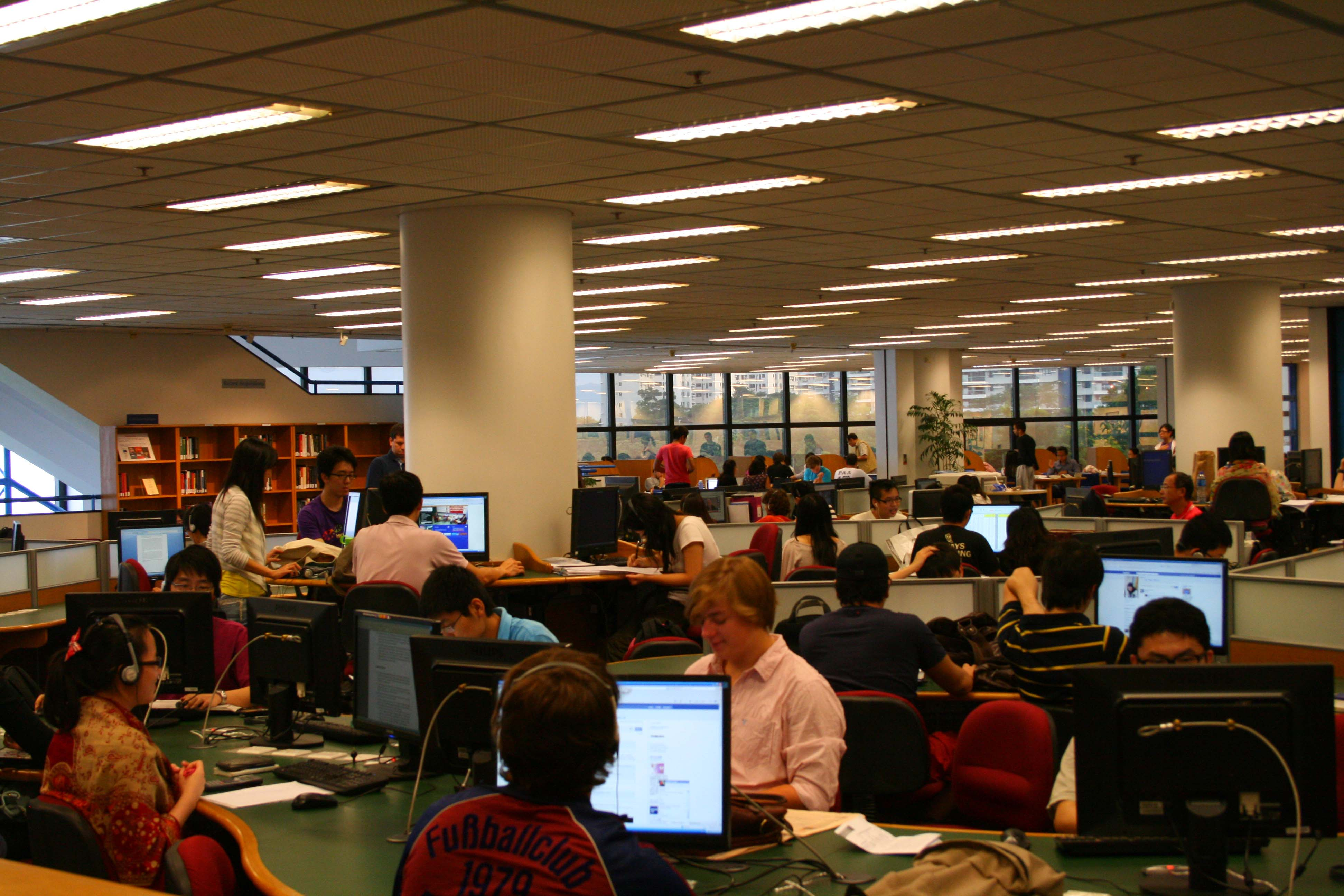 The library of Hong Kong University of Science & Technology